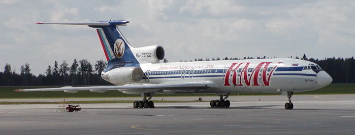 Photo of KMV Avia Tu-154m at Moscow airport